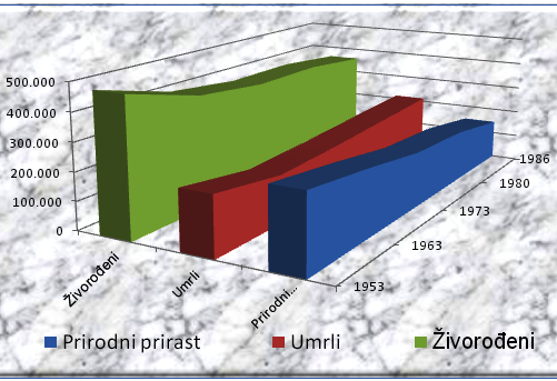 A chart showing the population growth of Yugoslavia from 1953 to 1986. It covers both the birth rate and the death rate, adding to the overall population growth. The declining birth rate is noticeable, ass well as the increase of the average mortality.